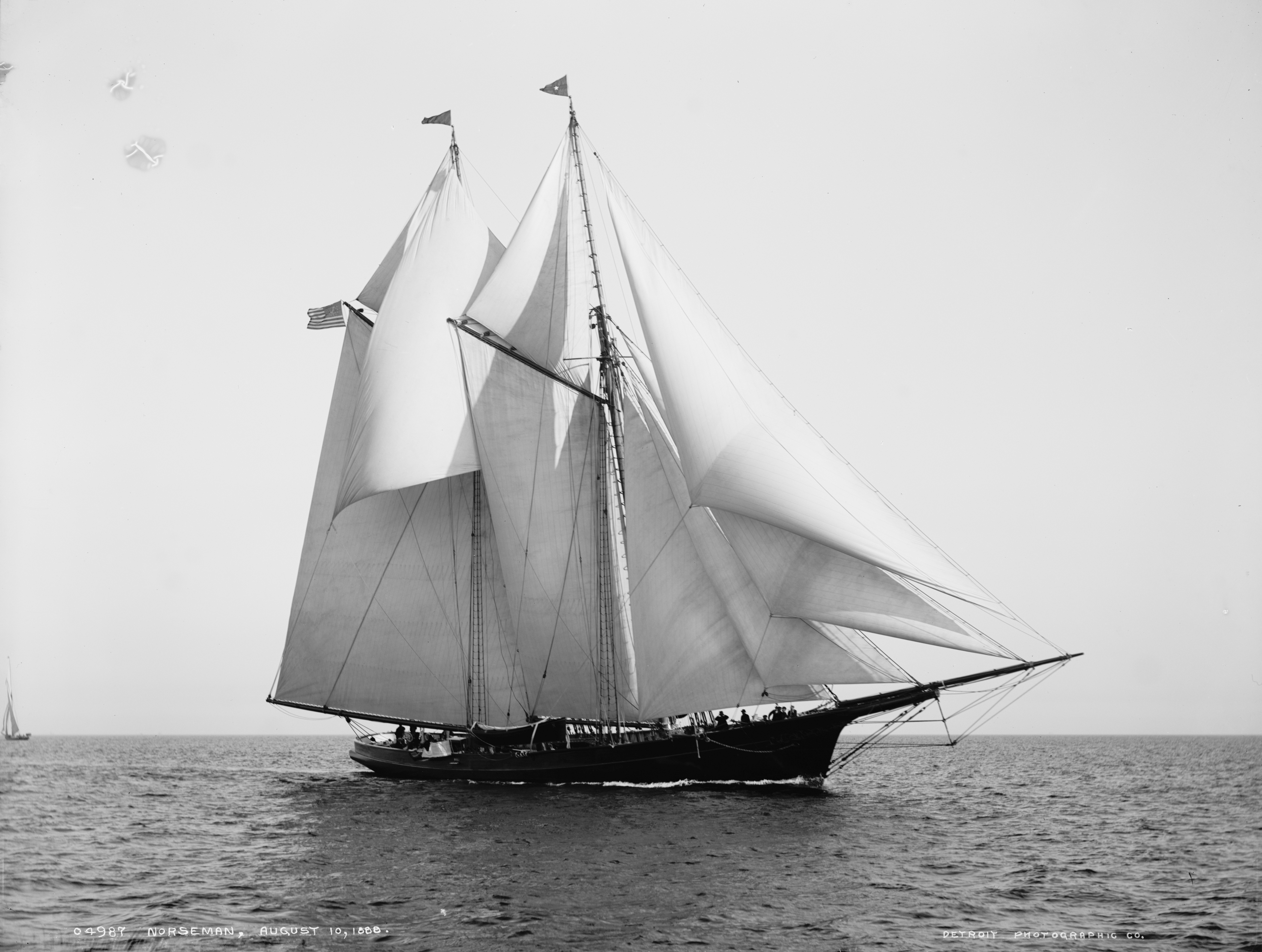 Ogden Goelet's schooner Norseman (William Townsend design, built in 1881 at the Richard & Cornelius Poillon shipyard, Brooklyn)